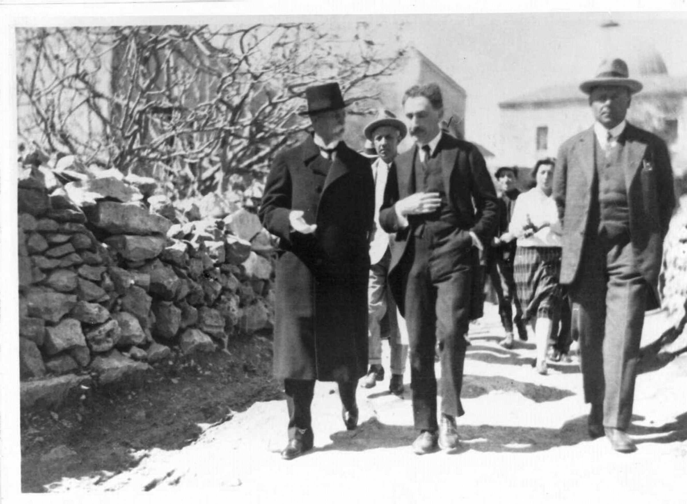 Tomáš Masaryk's visit to Jerusalem; next to him is Hugo Bergman and the Czech Consul, in Jerusalem